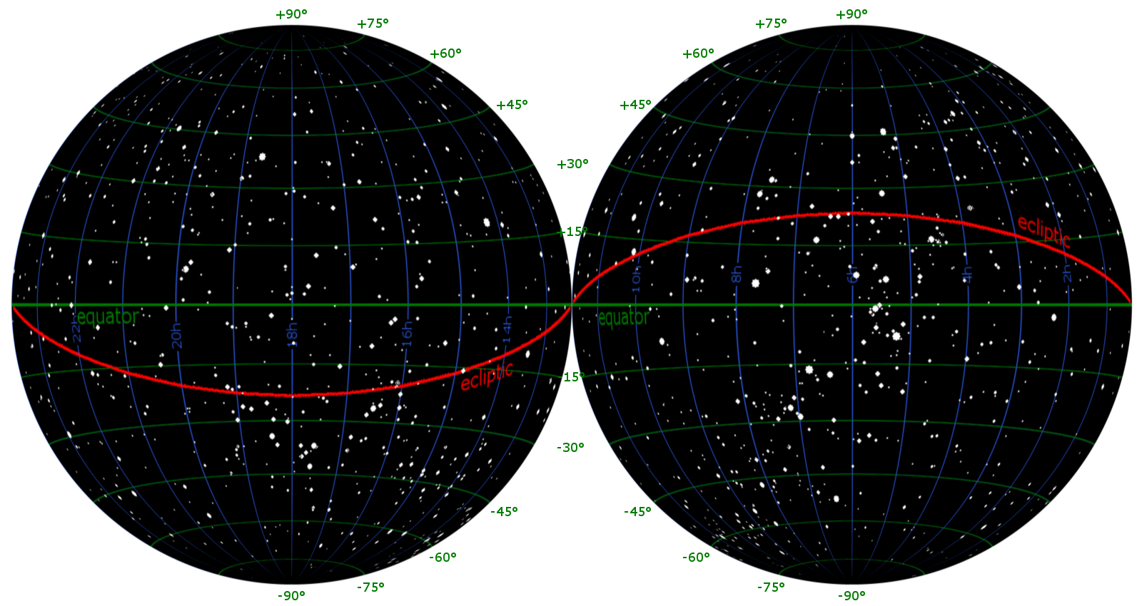 The night sky, divided into two halves, depicting the ecliptic, equator, lines of right ascension and declination